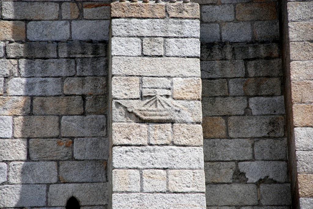 Boat decoration on the facade